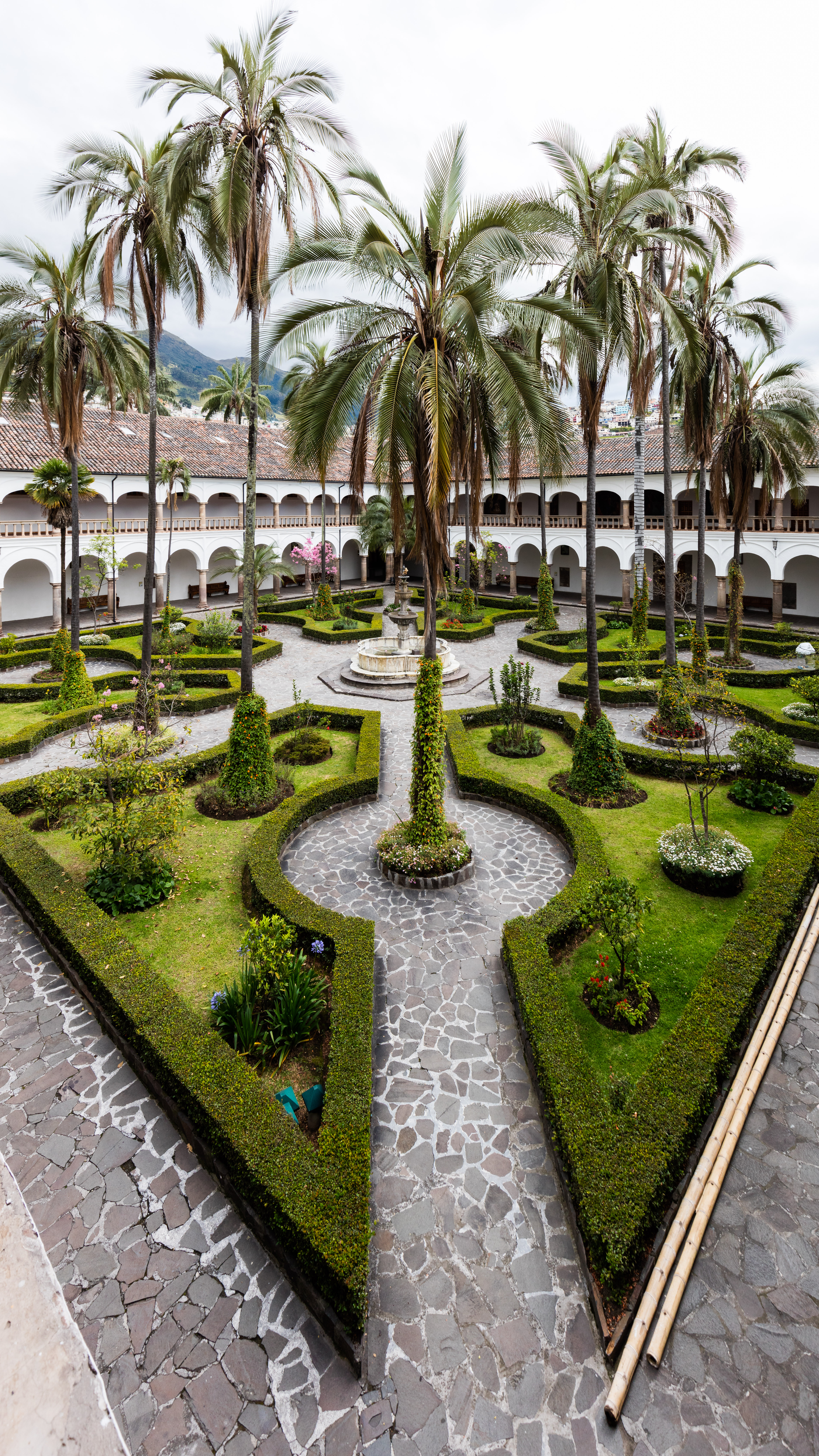 Museum of the church of San Francisco, Quito, Ecuador